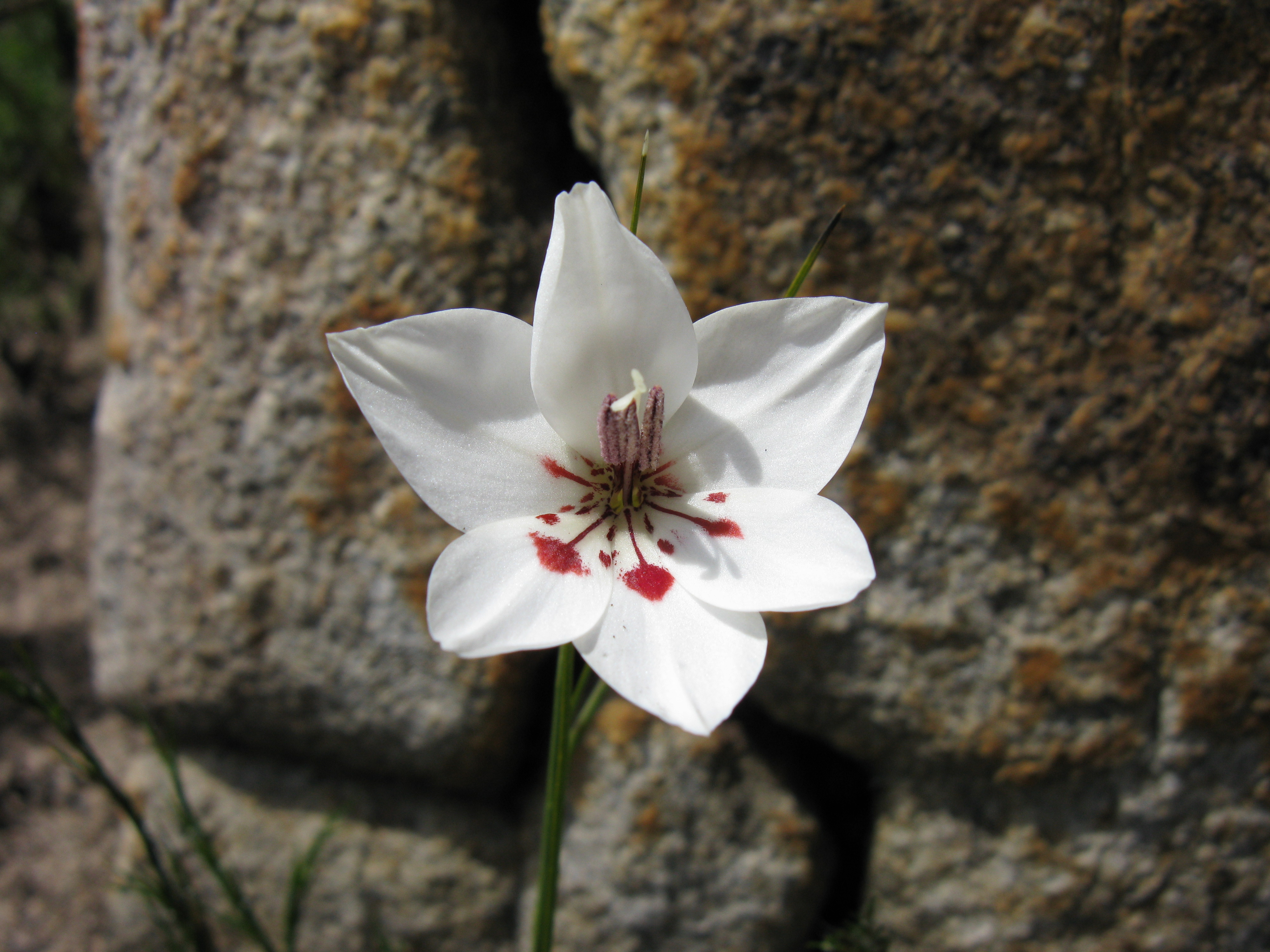 Gladiolus debilis. This species is sometimes called "The Little Painted Lady", from a fancied resemblance to the larger Gladiolus cardinalis, the "true" painted lady.